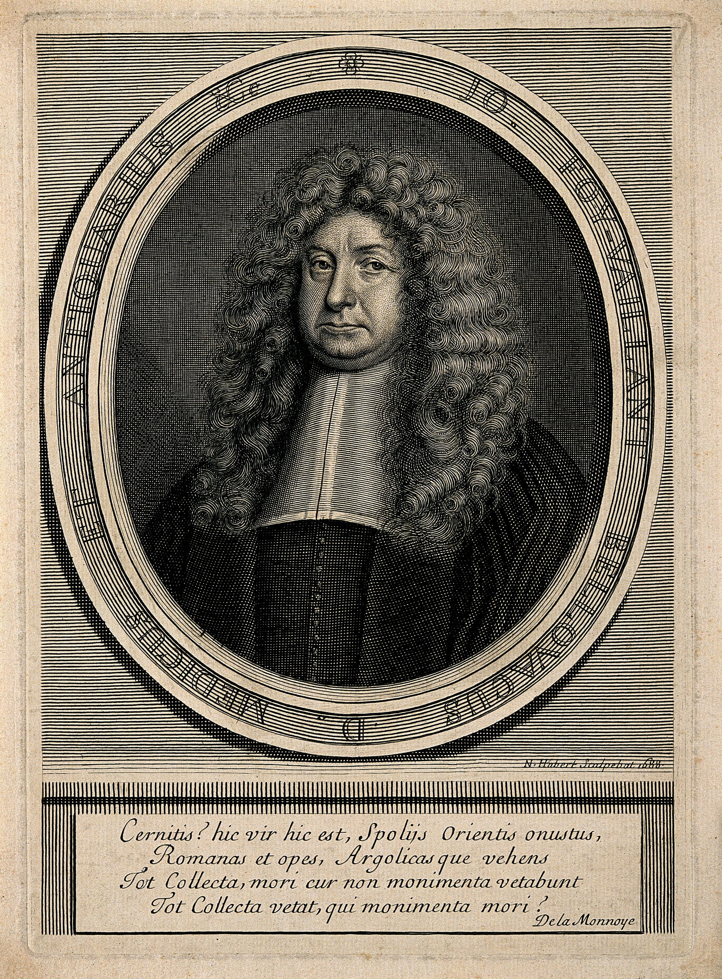 Jean Foy Vaillant. Line engraving by N. Habert, 1688. Iconographic Collections Keywords: portrait prints; N. Habert; engravings; Jean Foy Vaillant